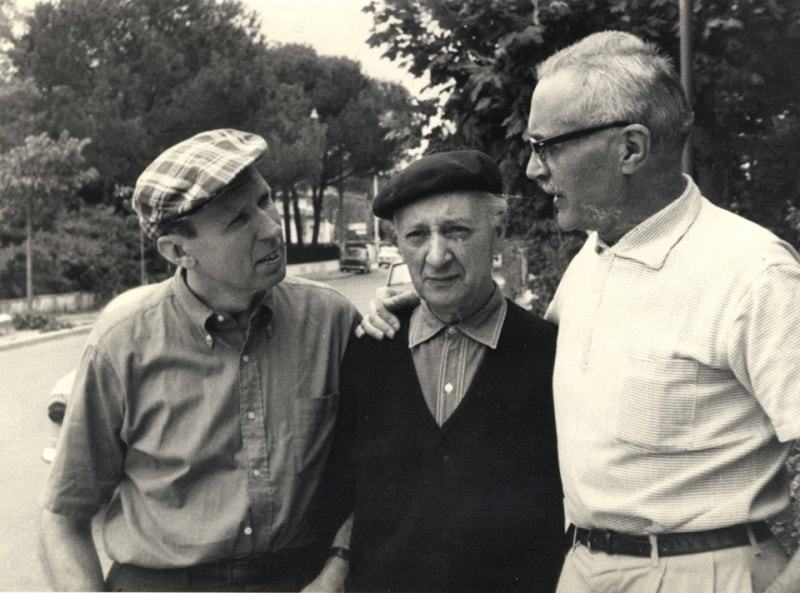 From left to right, Ernesto Treccani, Achille Funi e Rodolfo Margaria